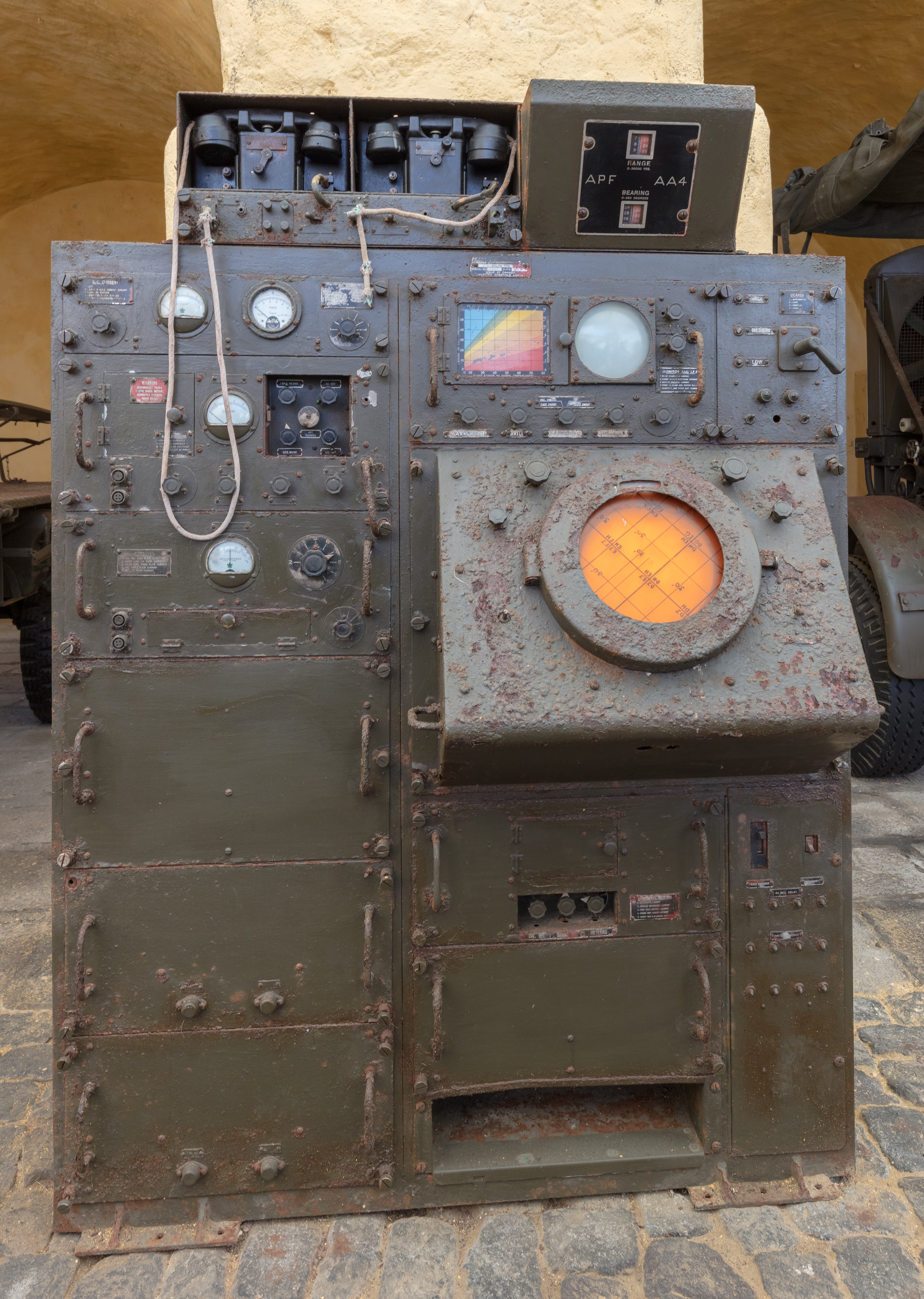 Military radar, Fort of São Brás, Ponta Delgada, São Miguel Island, Azores, Portugal